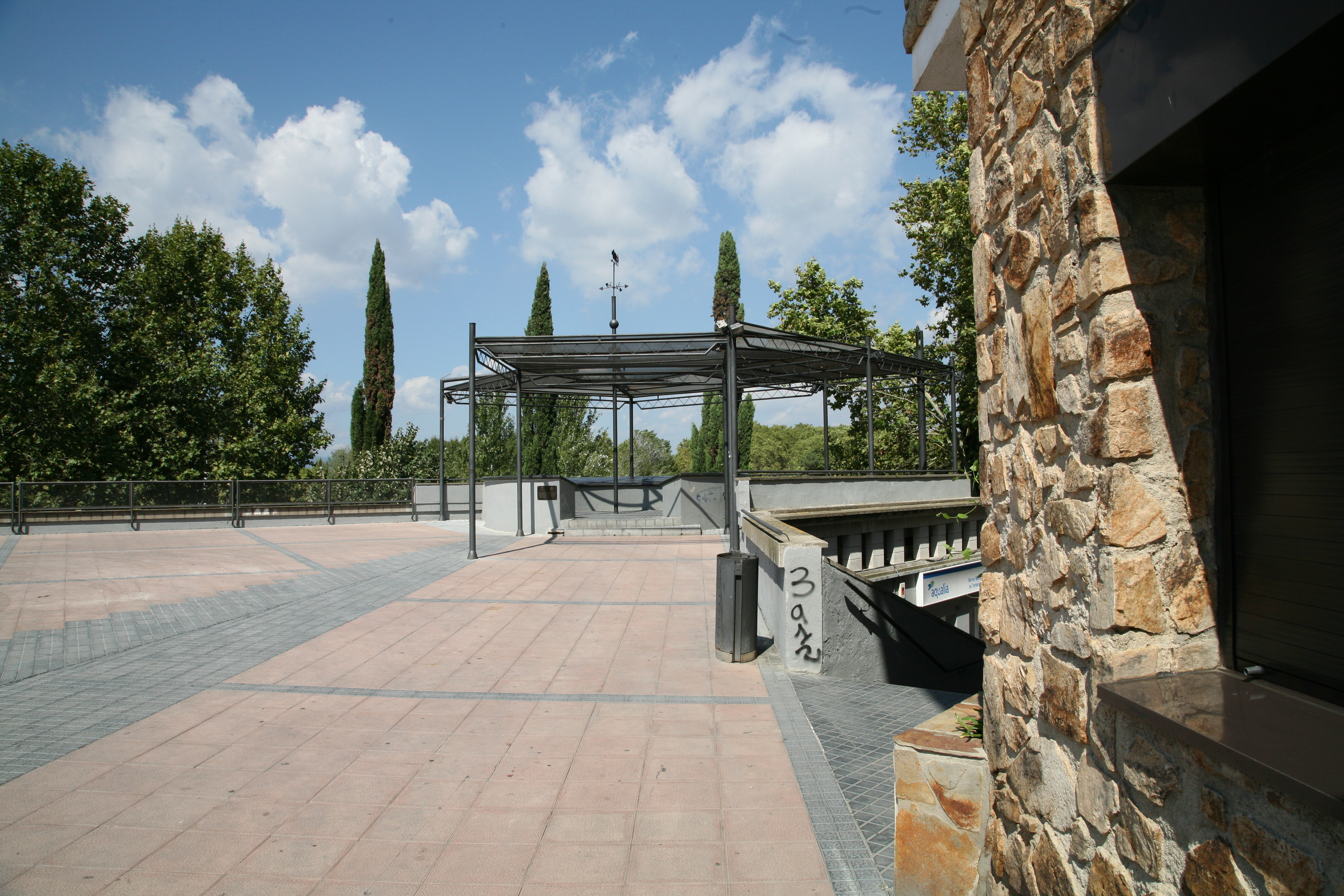 IPA-9239 Tordera City Council square's viewpoint